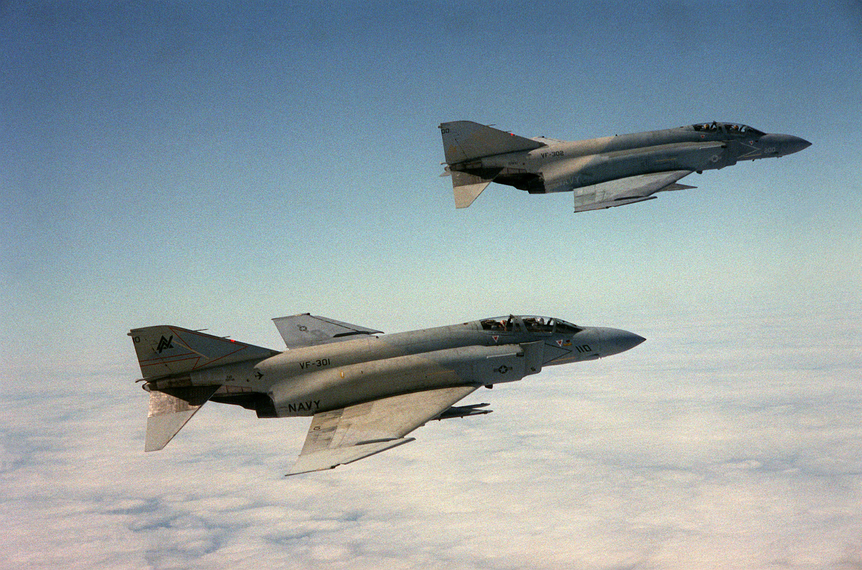 Two U.S. Naval Reserve McDonnell Douglas F-4S Phantom II aircraft in flight on 15 May 1983: An F-4S from fighter squadron VF-301 Devil's Deciples, foreground, and an F-4S aircraft from fighter squadron VF-302 Stallions. Note that the F-4S in the foreground carries a "MiG kill" marking. This is BuNo 155749, while still an F-4J it was flown by Lt. Steven C. Shoemaker and Lt.(jg) Keith V. Crenshaw, who shot down a North Vietnamese MiG-17 while flying with VF-96 Fighting Falcons, Carrier Air Wing Nine (CVW-9), from USS Constellation (CVA-64), on 10 May 1972 (tail code "NG 111").